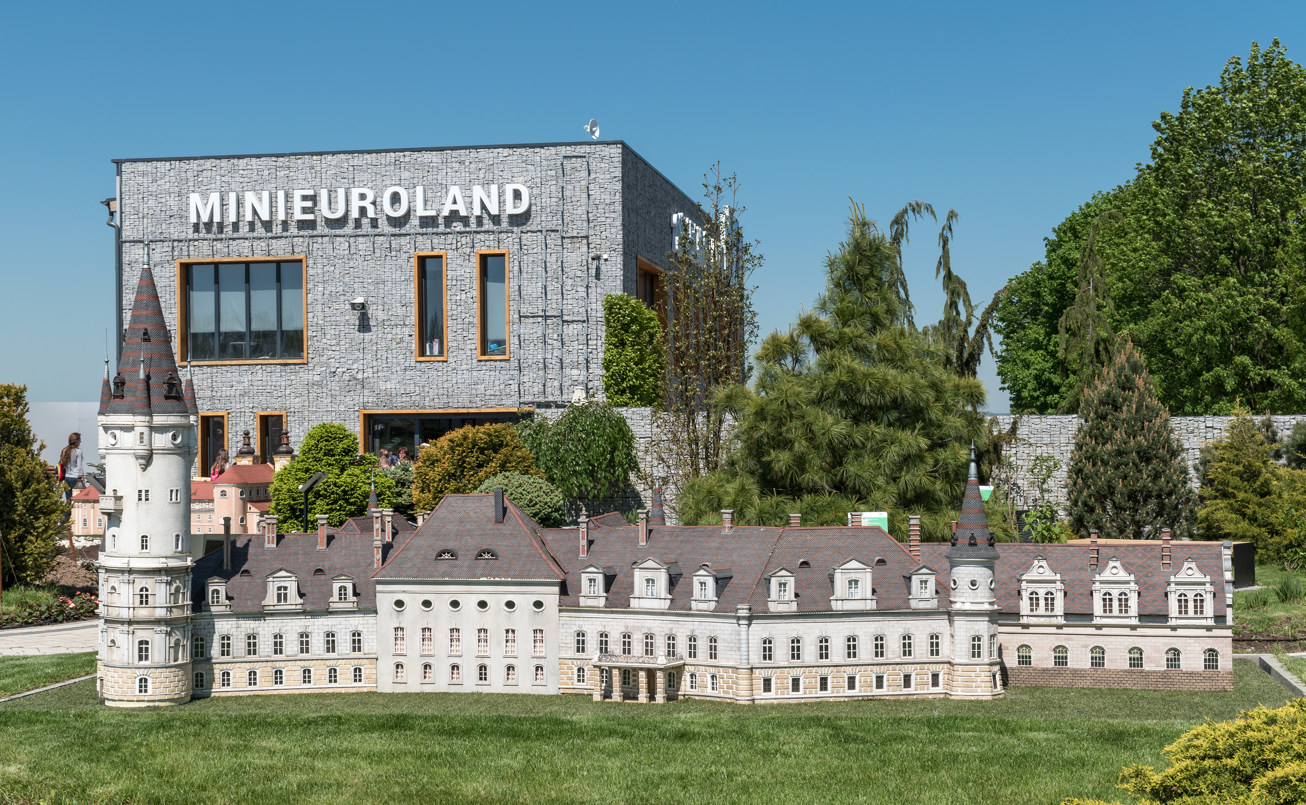 Minieuroland in Kłodzko, palace in Bożków